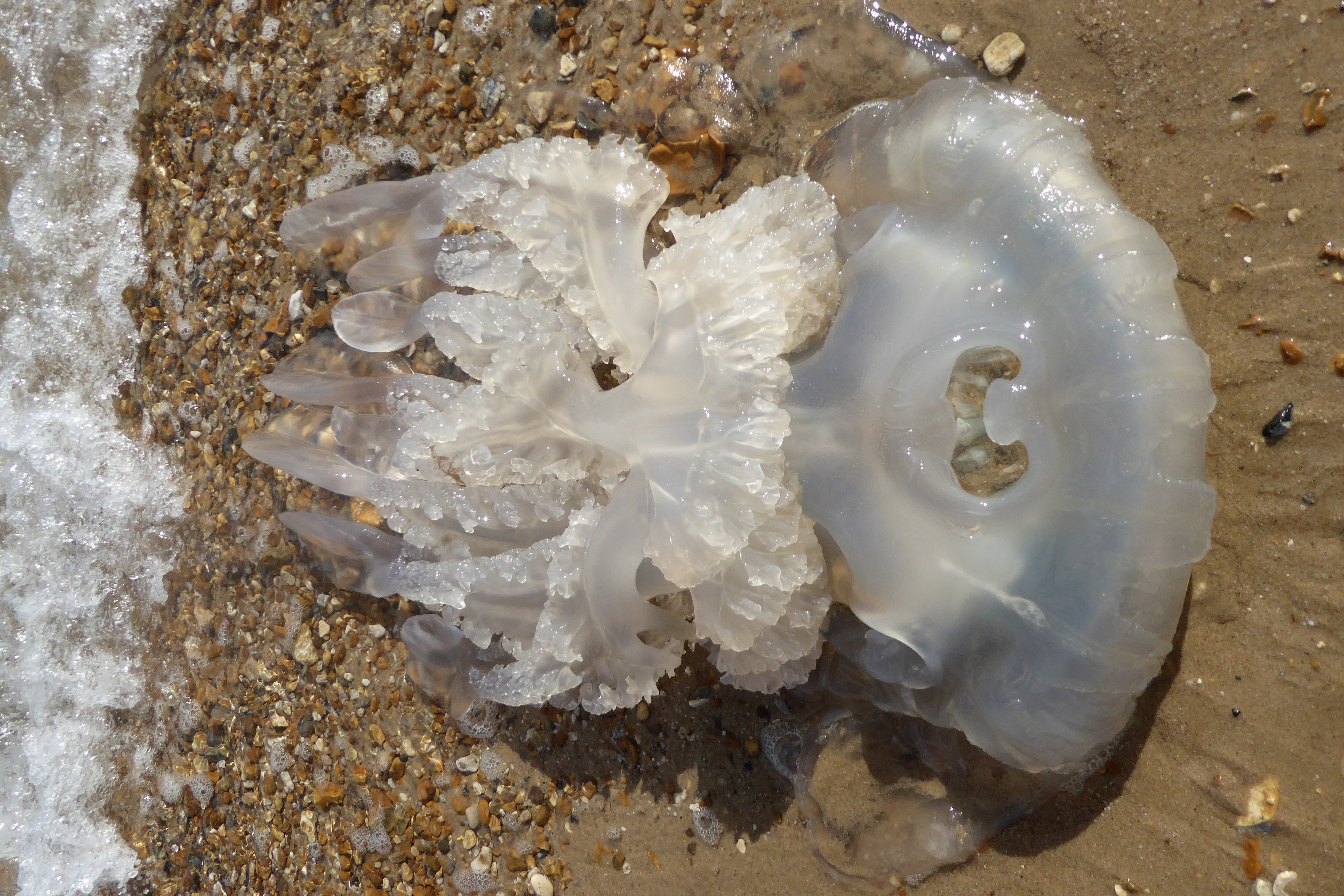 A Rhizostoma pulmo jellyfish washed ashore on Bournemouth beach, Dorset.